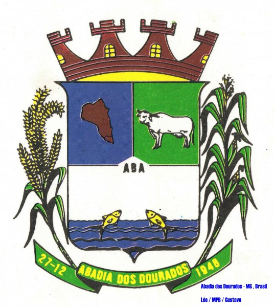 Coat of arms of Abadia dos Dourados - Minas Gerais - Brazil.